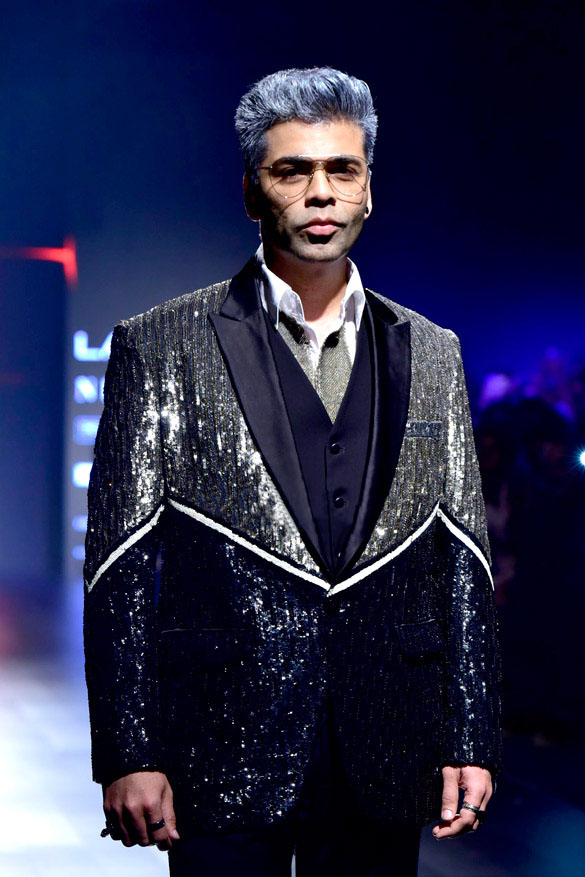 Karan Johar walks the ramp for Shane and Falguni Peacock.